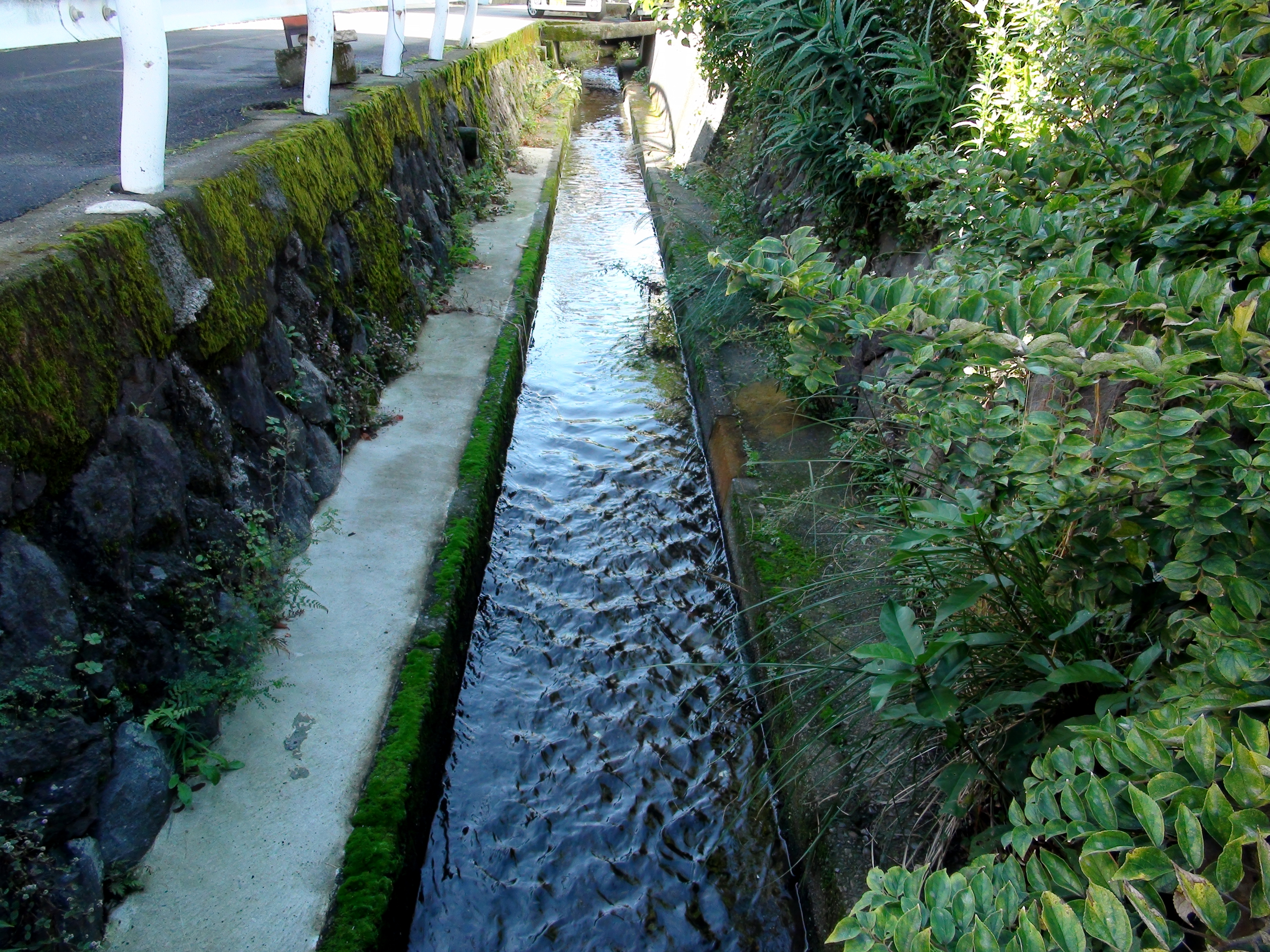 Tojin River Ito city